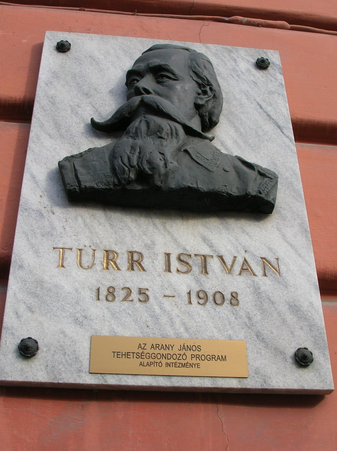 This is about István Türr, who is the name giver of this grammar school